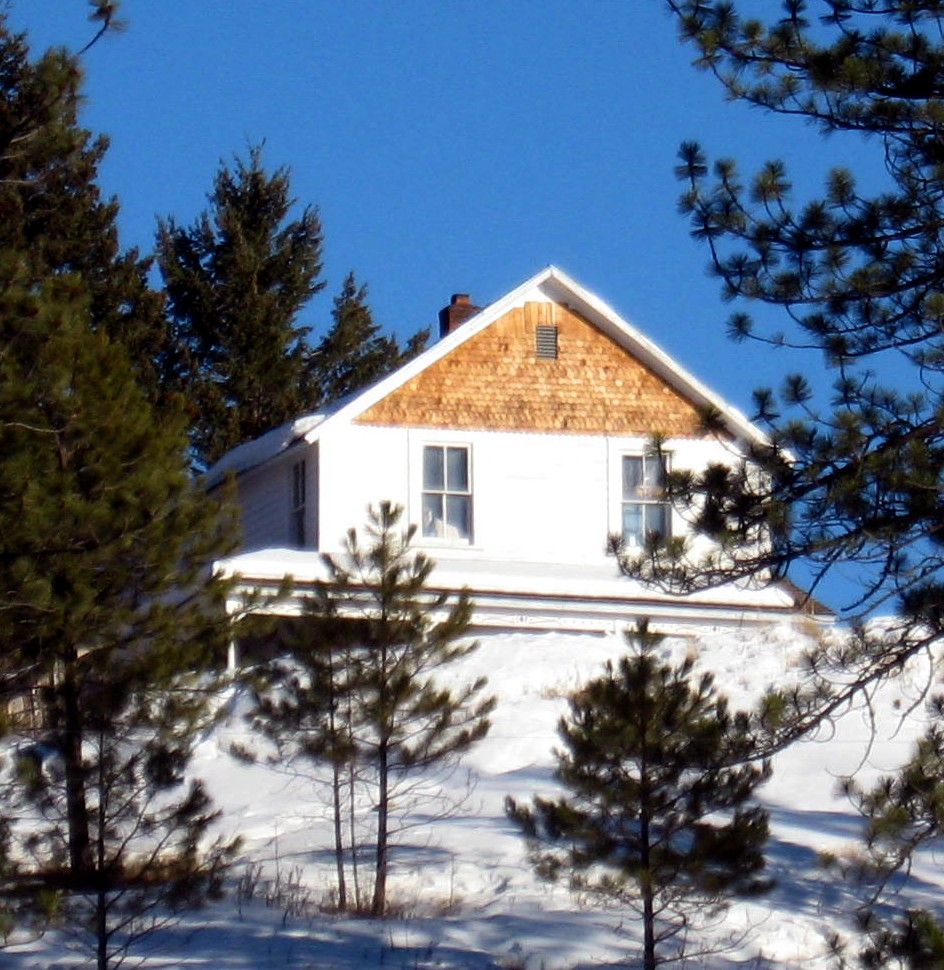 The Creaser Hotel is the oldest Frame Building still standing in Republic, WA. It was built in 1897 by Phil Creaser and operated as a hotel until sometime in 1905-1909. It has been a private residence ever since.